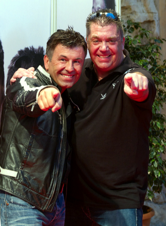 Die Autohändler - Jörg und Dragan, 2011